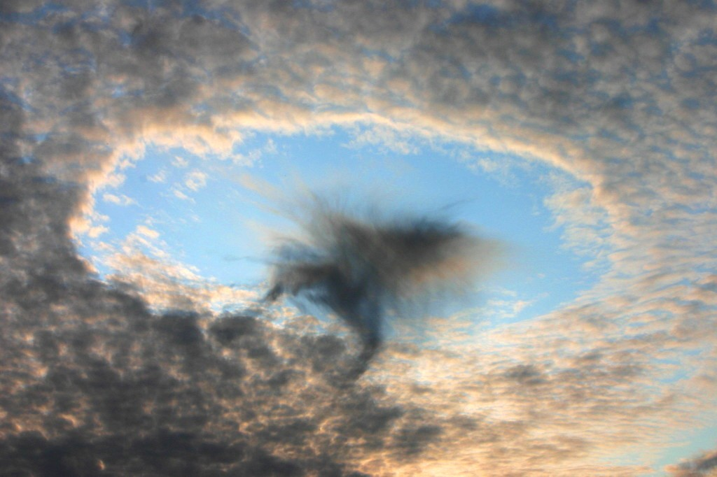 A Hole Punch Cloud (or Fallstreak Hole), observed on 2008 August 17 about 20km south of Linz, Austria.